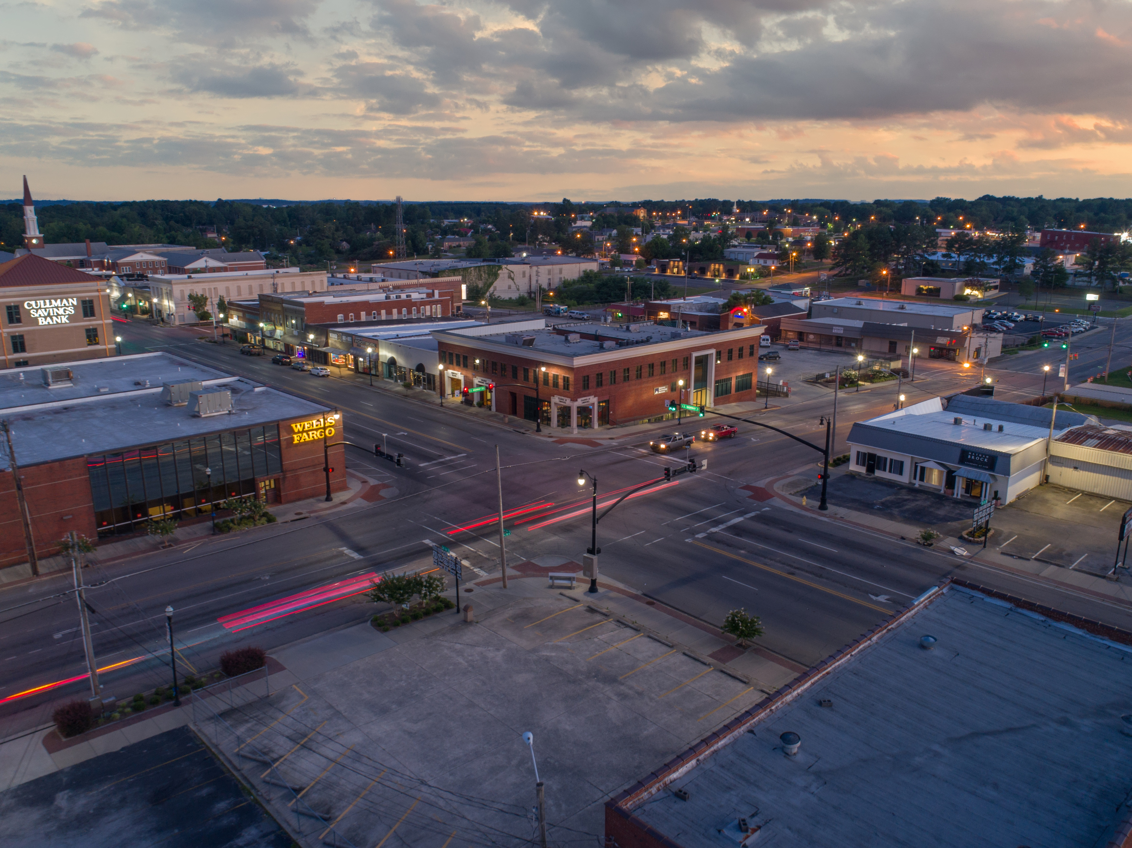 Downtown Cullman